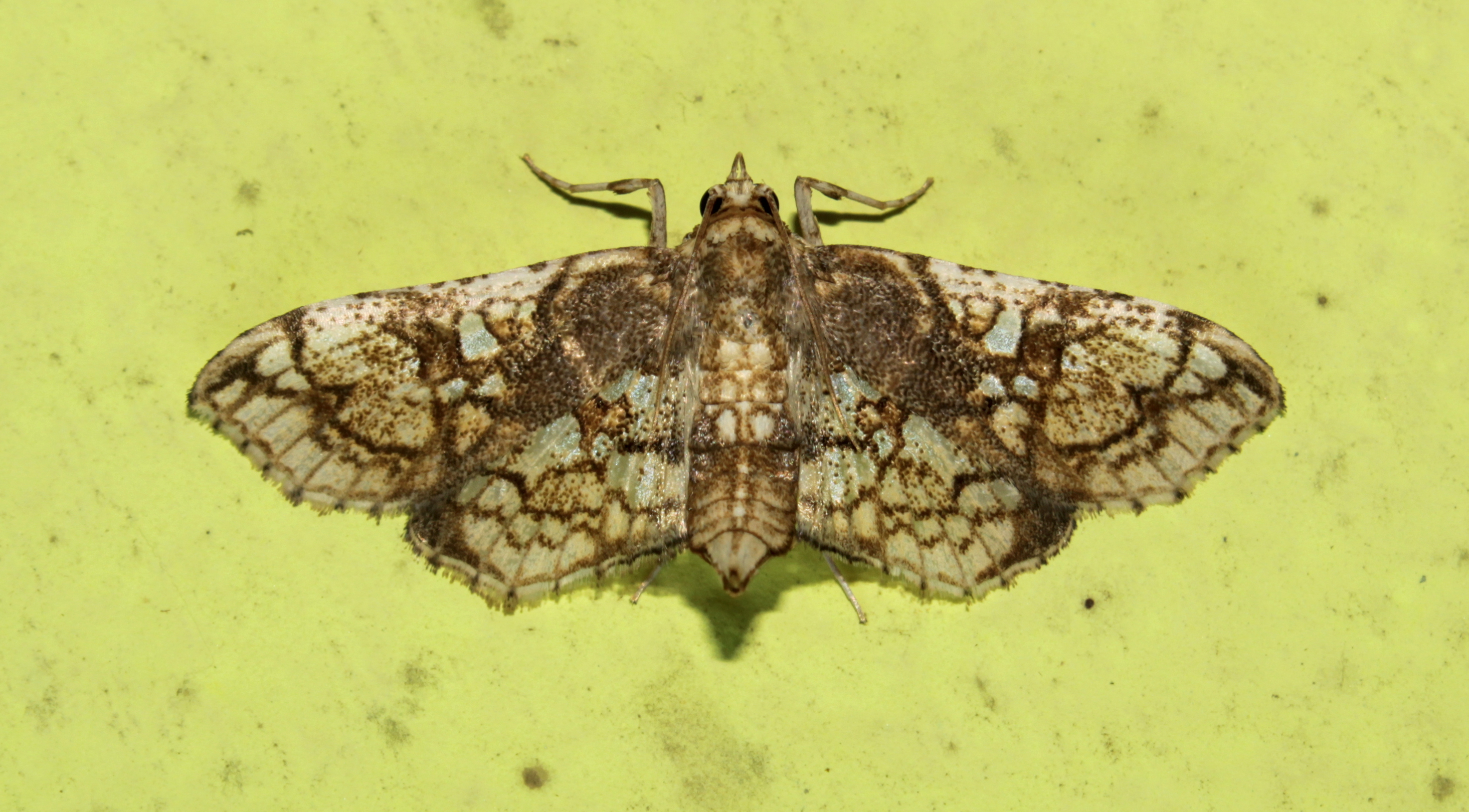 A Sweetpotato vineborer moth (Omphisa anastomosalis). Photographed near Kanjirappally, Kerala